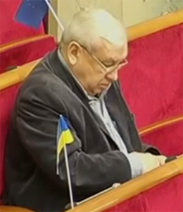 Valeriy Kalchenko, Ukrainian politician, member of the Ukrainian Verkhovna Rada